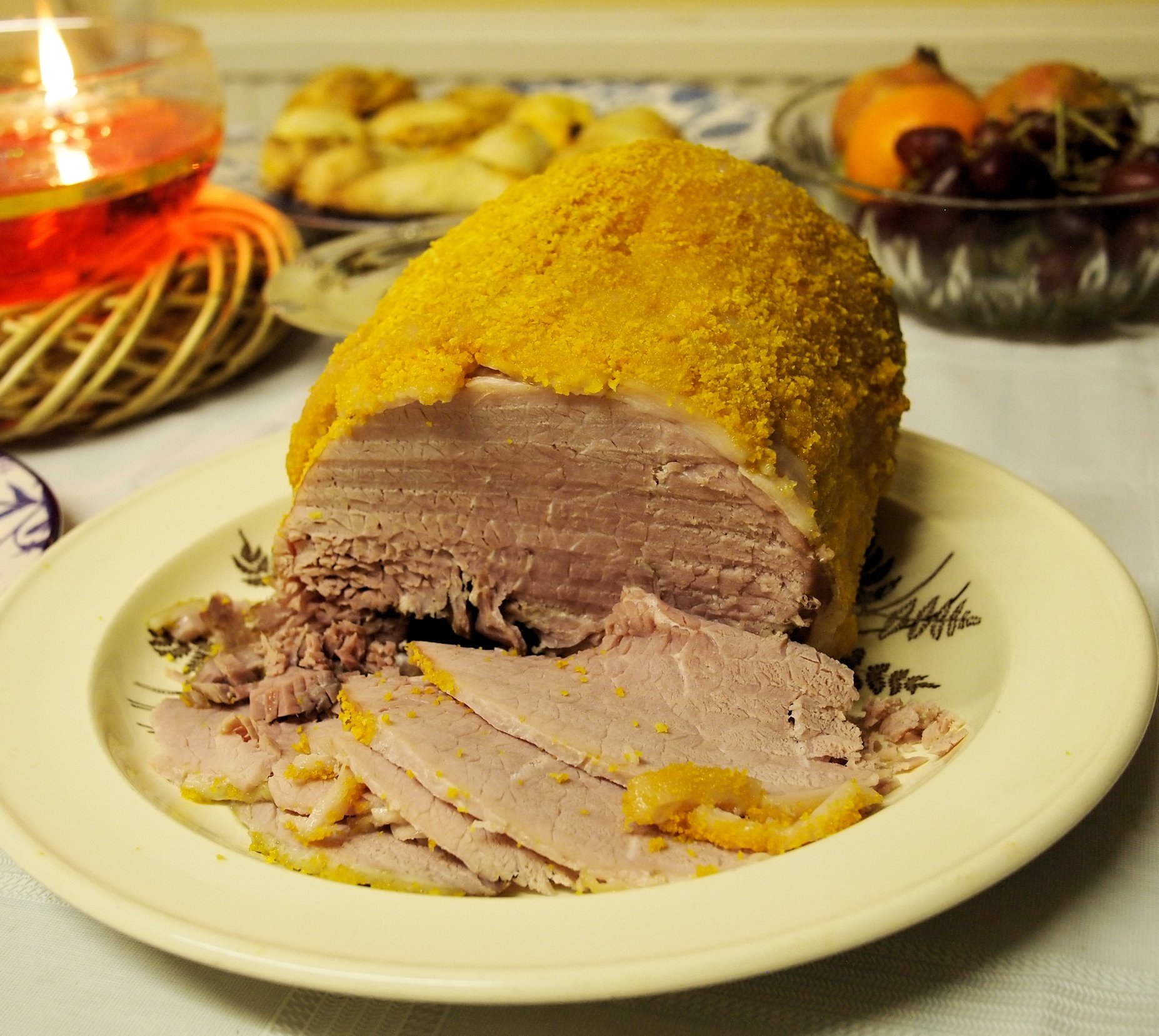 Home-made breaded York ham